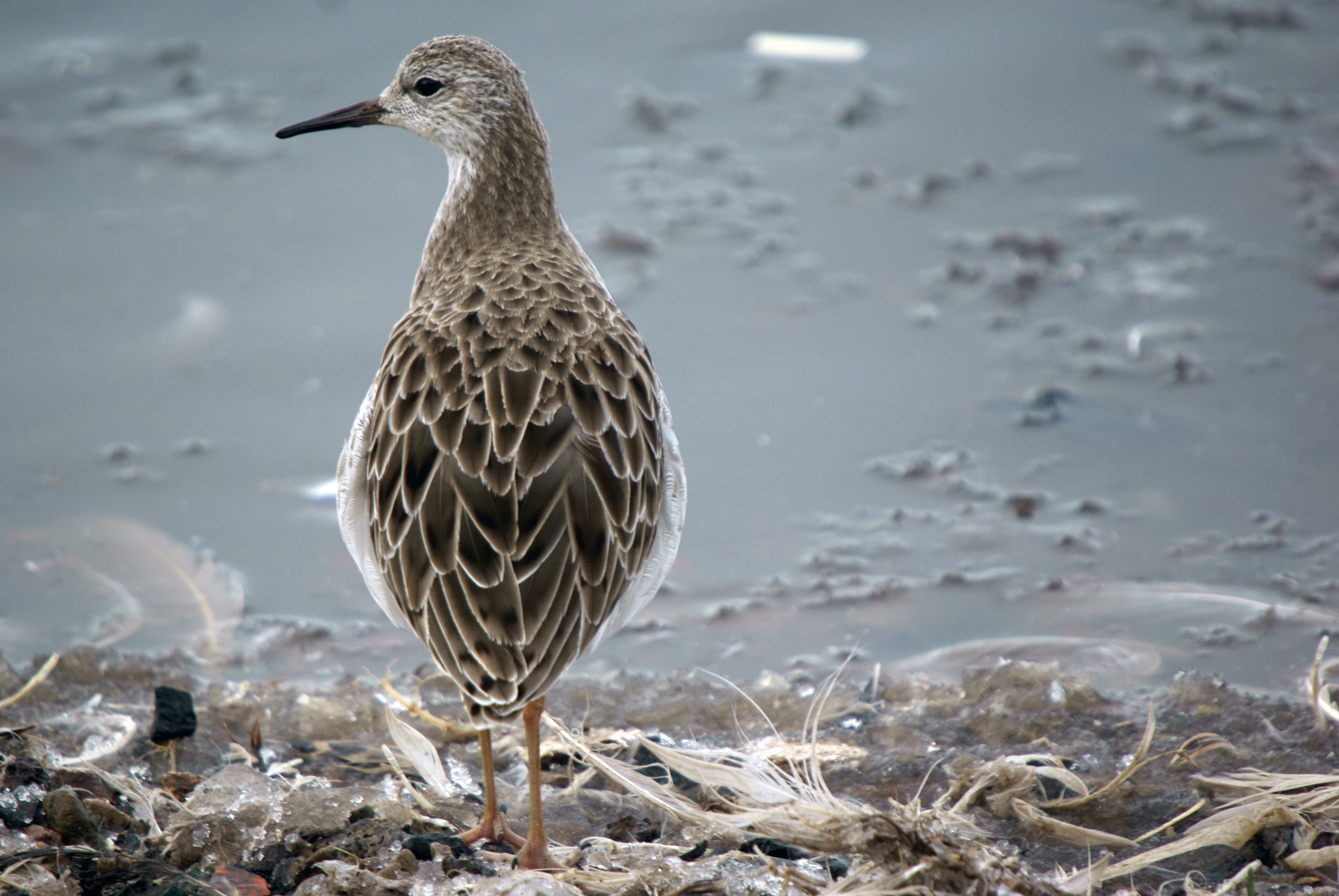 A female Ruff at Martin Mere, Lancashire, England (gender as indicated by flickr photographer, who presumably was able to differentiate sexes by comparison of the size of the birds).